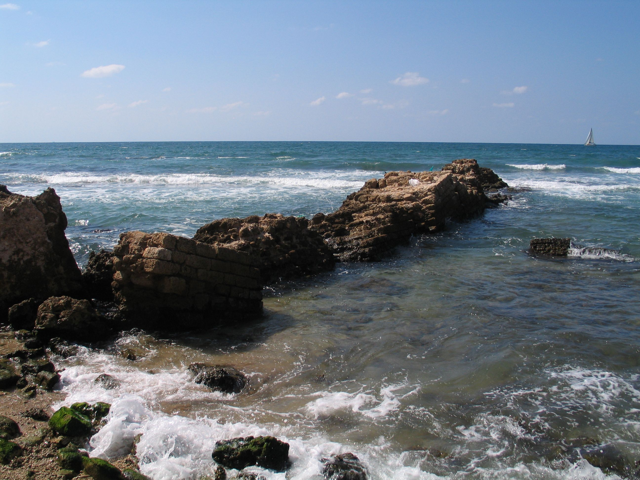 A beach below the Arsuf fortress, Israel.